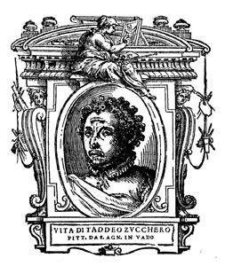 Illustratio from "Le Vite" by Giorgio Vasari, edition of 1568. For the artist portrayed see filename